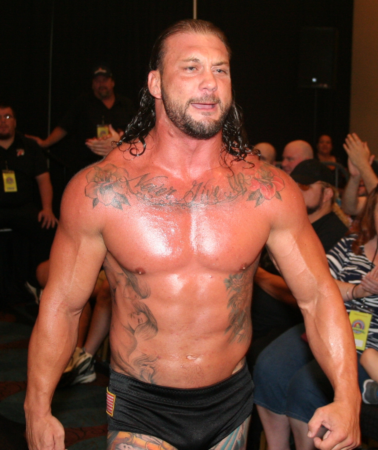 Wes Brisco at the Mid-Atlantic Fanfest in August 2014.